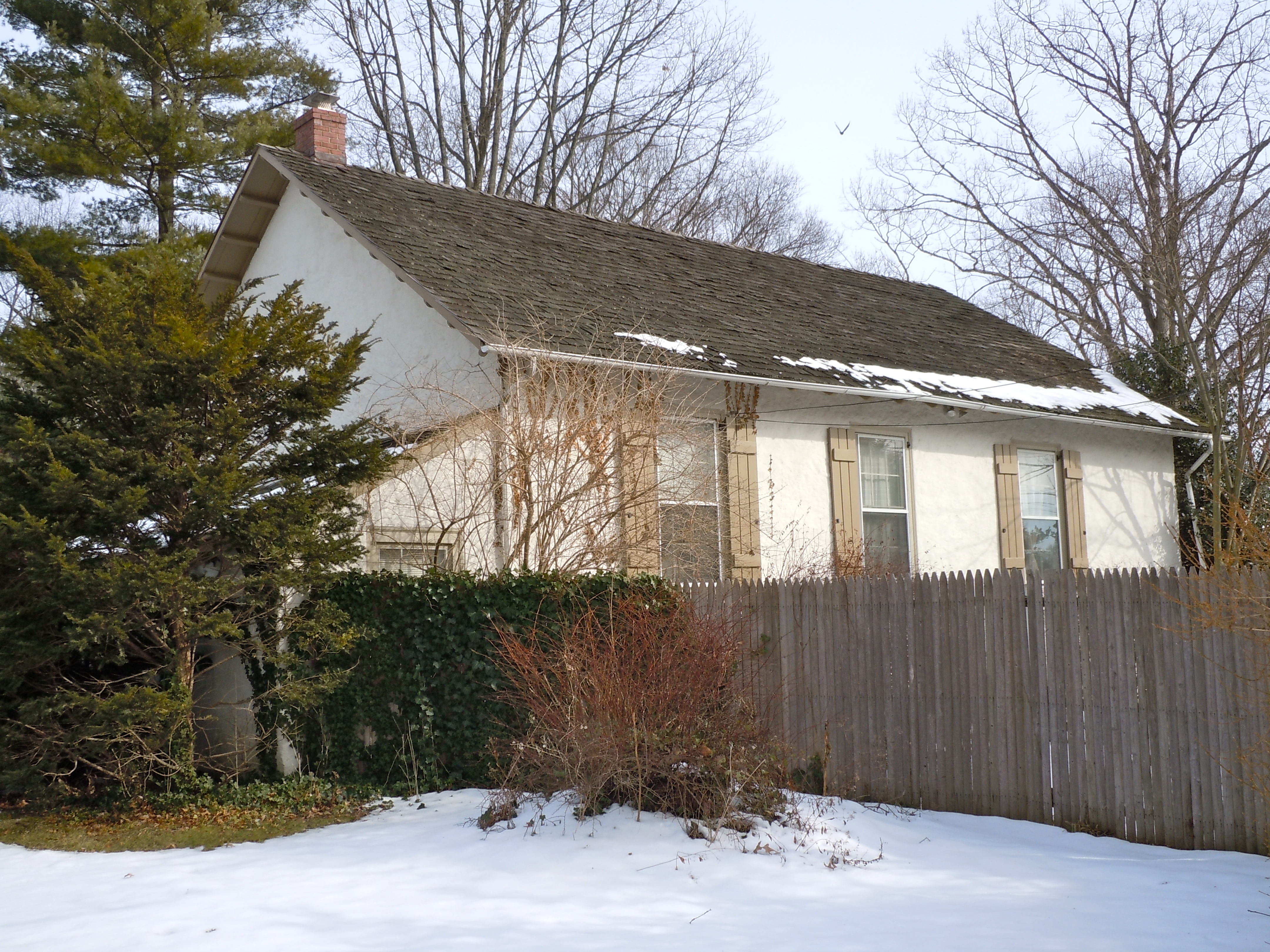 Greenwood School on the NRHP since November 10, 1983, at 700 King Road (corner of Boot Road), in West Whiteland Township, Chester County, Pennsylvania. Now used as a house.